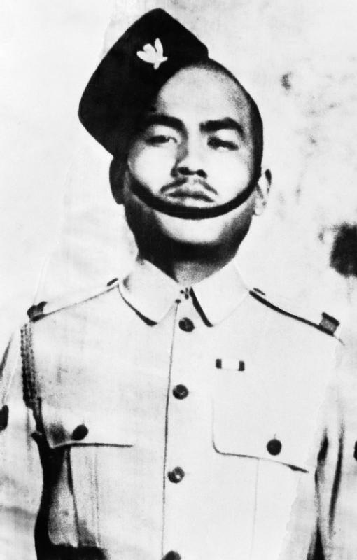 Photograph of Netrabahadur Thapa, Nepalese posthumous Victoria Cross recipient of World War II.